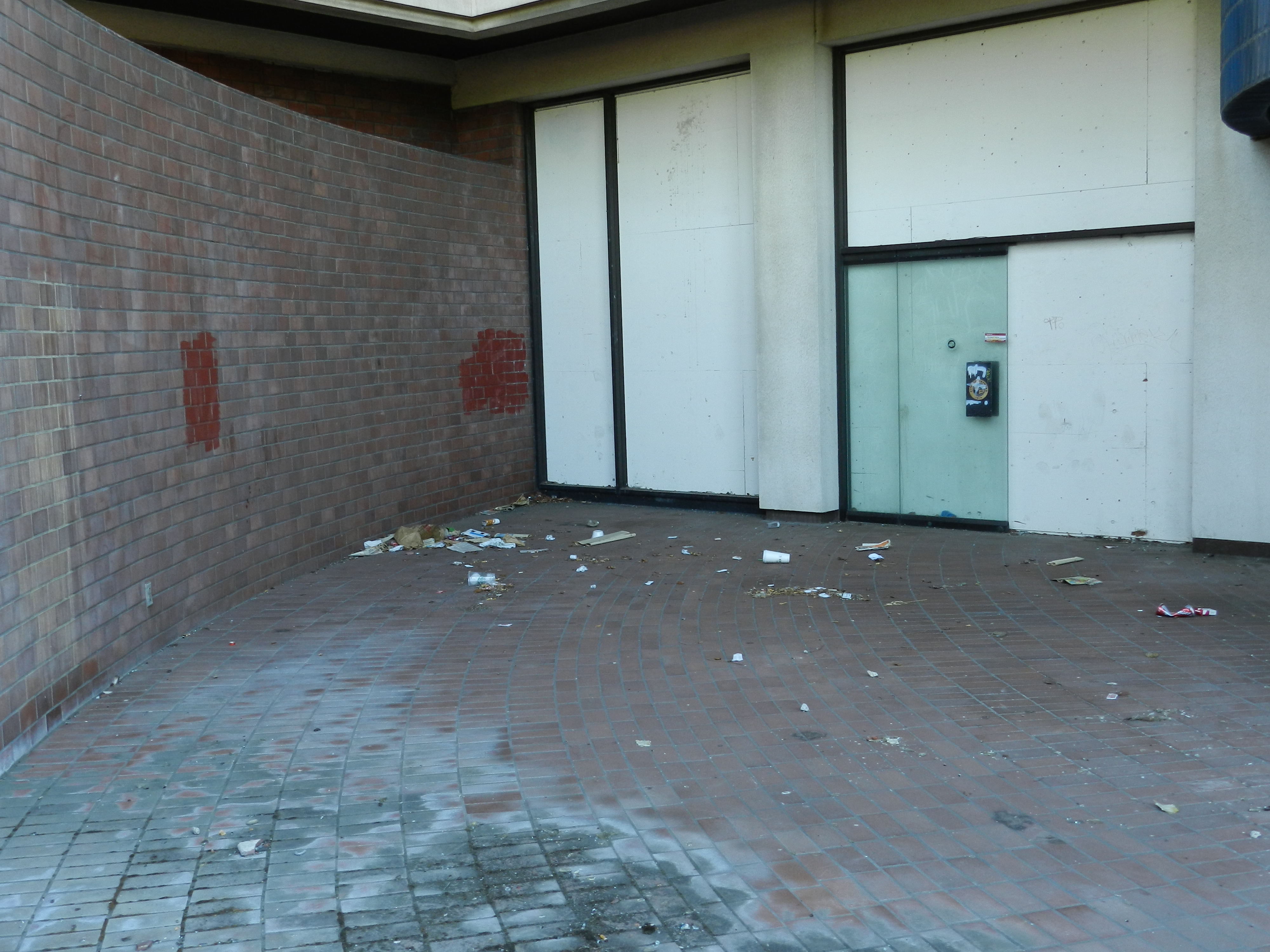 Hayward's abandoned City Center Building, with evidence of disuse